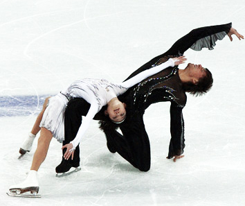 Yuko Kawaguchi and Alexander Smirnov at the 2010 Winter Olympics (SP).